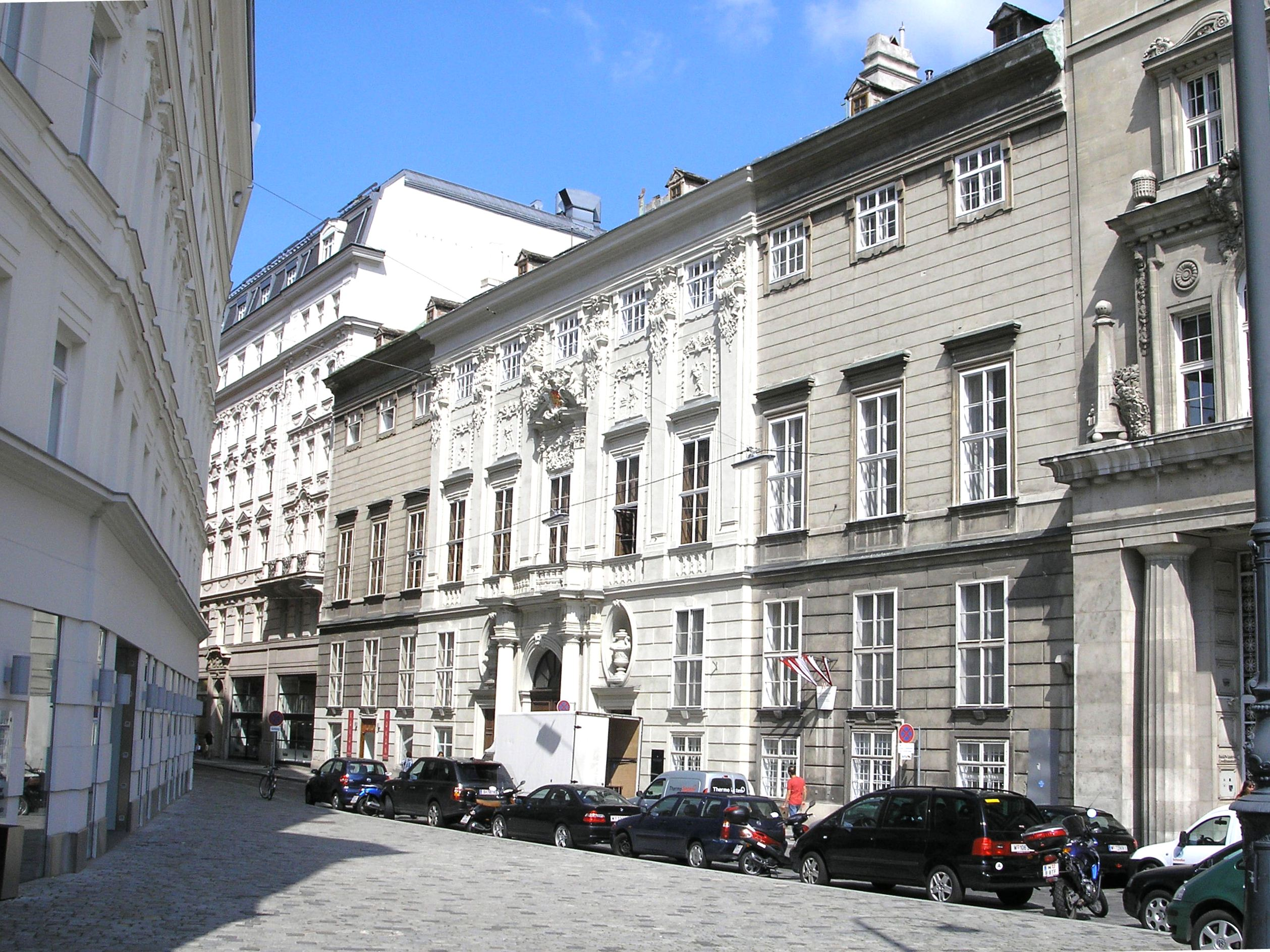 Palais Schönborn-Batthyány in Vienna, Renngasse 4, close to Freyung